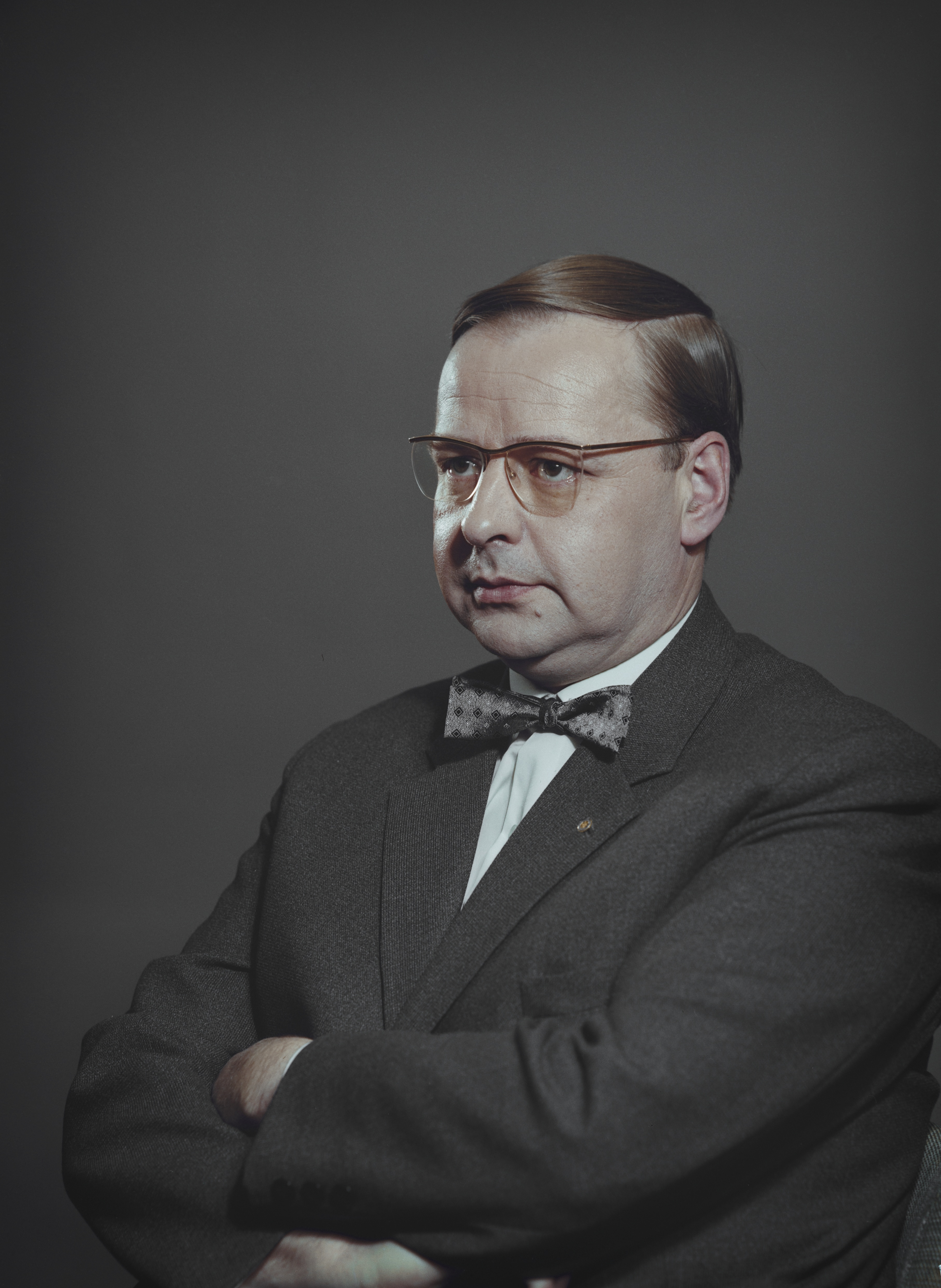 Photograph of the Finnish dentist and professor Kalervo Koivumaa (1926–1988).